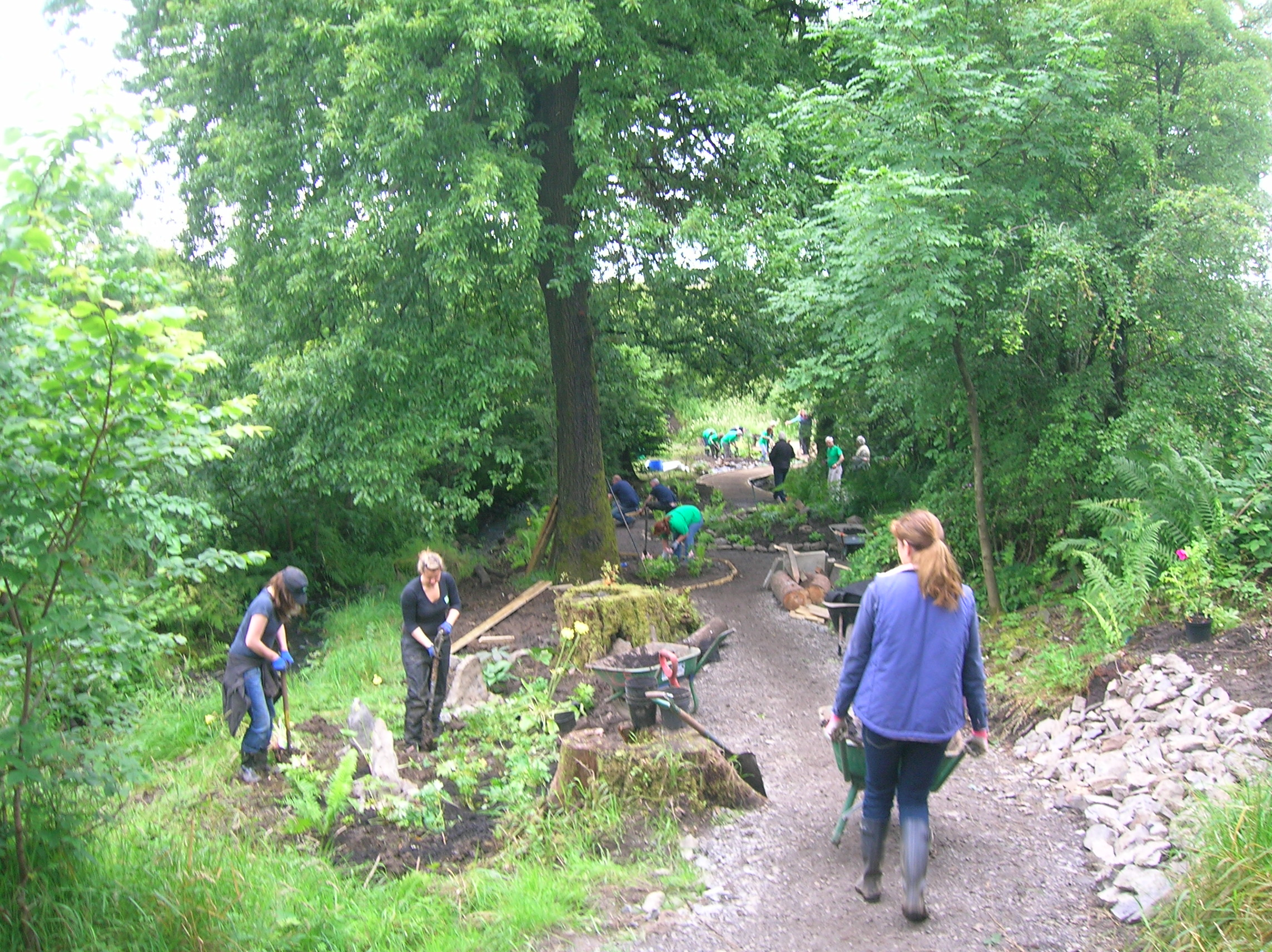 The Vale View Garden, bottom section, Barrmill, North Ayrshire, Scotland